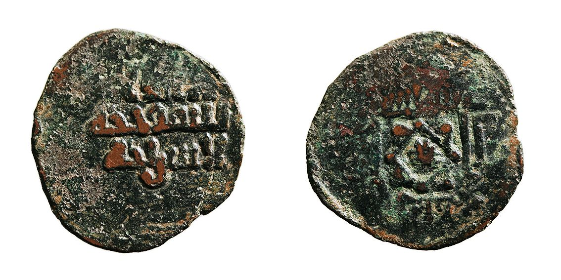 Falus of the Emirate de Córdoba issued under Abdullah ibn Muhammad al-Umawi. Made of copper, it shows greenish patina.